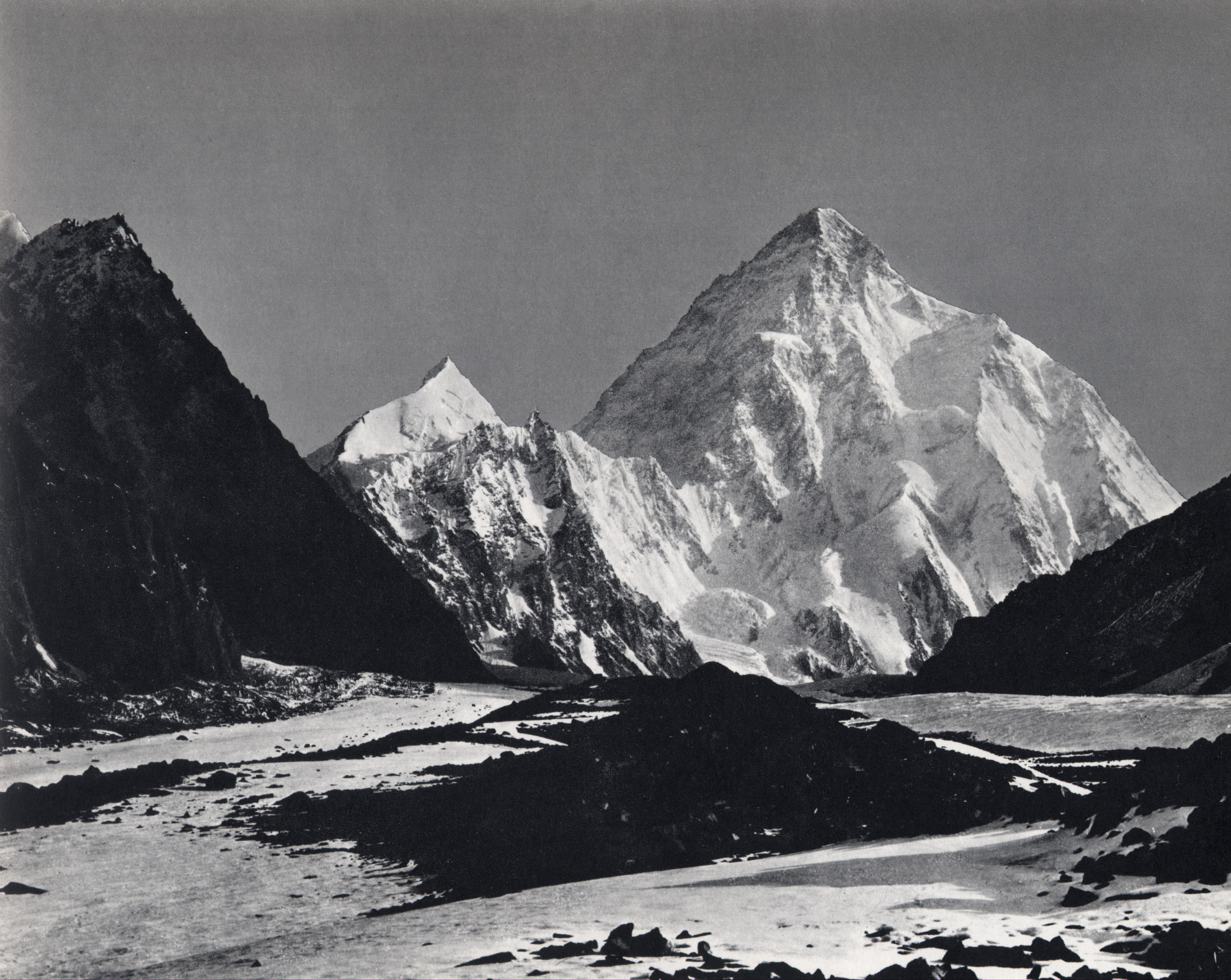 K2 (8611m). Photograph by Vittorio Sella (1859 – 1943) during the Italian K2 expedition led by Luigi Amedeo, Duke of the Abruzzi in 1909.